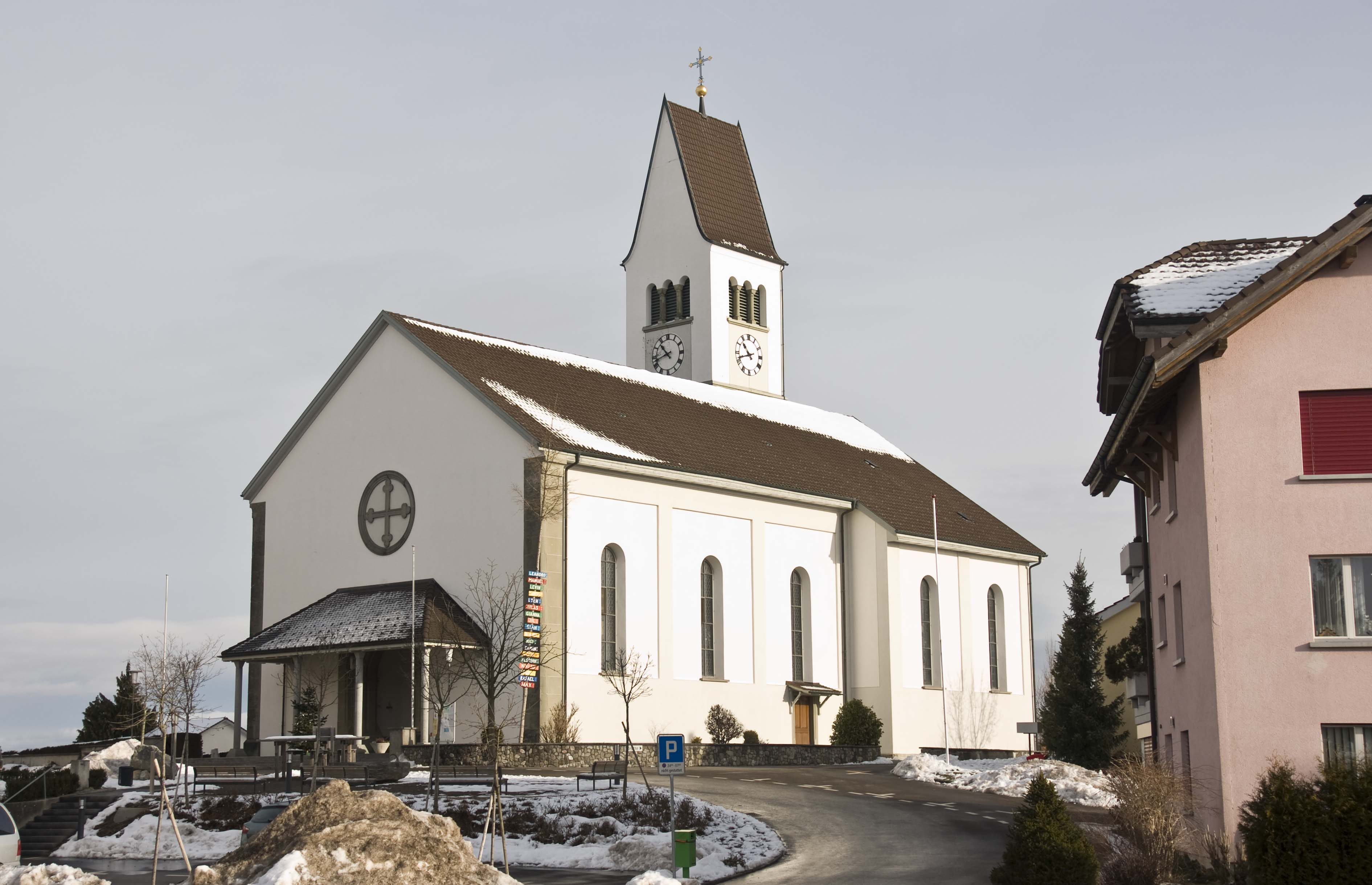 Church in Römerswil